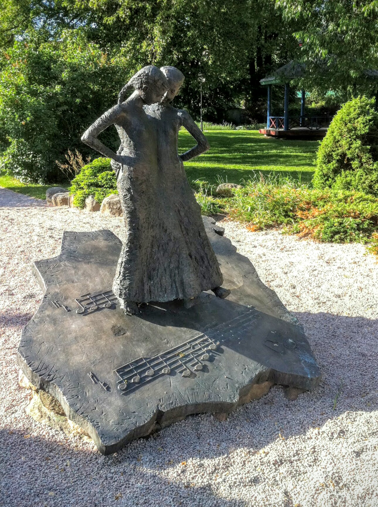 "Flickorna i Småland" (Swedish: "The Girls in Småland") by Lena Lervik erected 1992 in Järnvägsparken, Ljungby, Sweden.